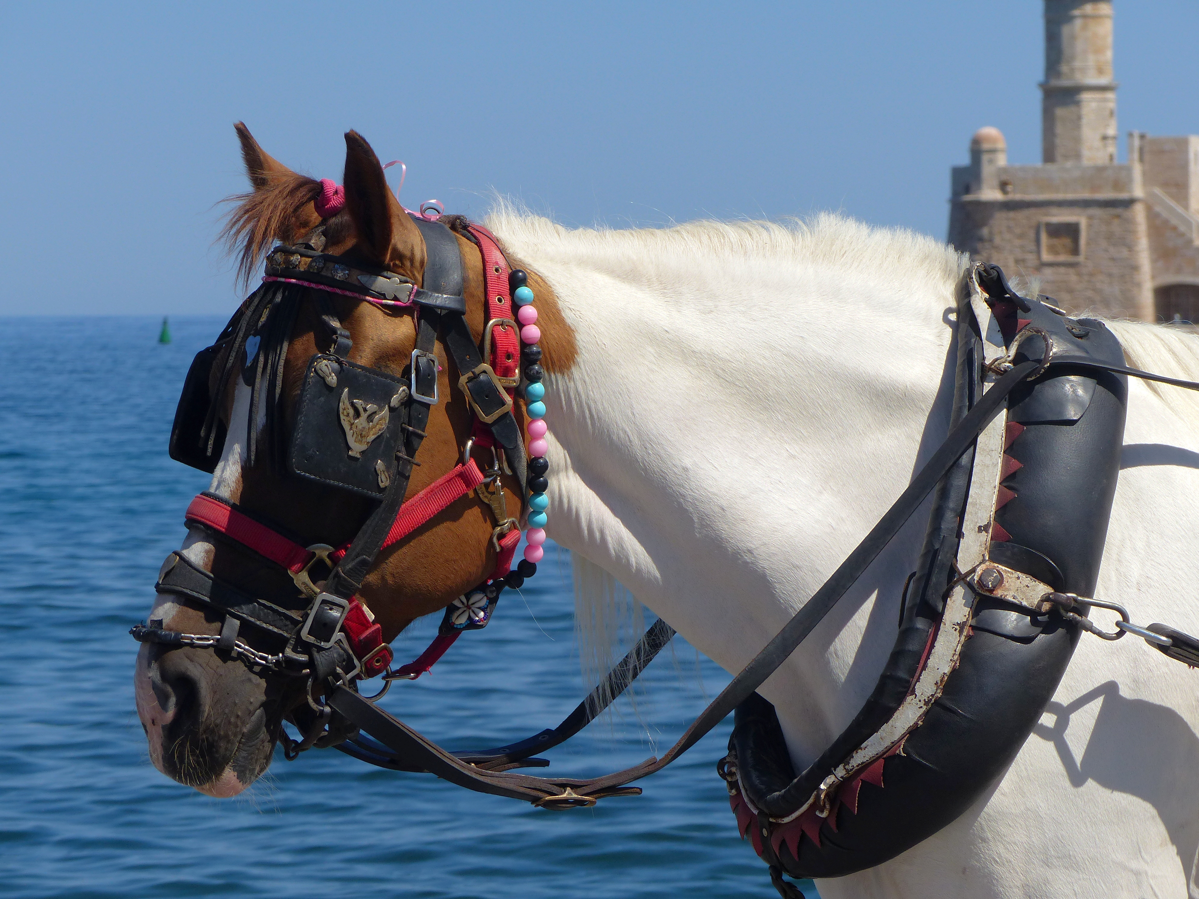 Piebald chestnut carriage horse with bitless bridle and severe noseband on the old harbour of Chania, Creta.